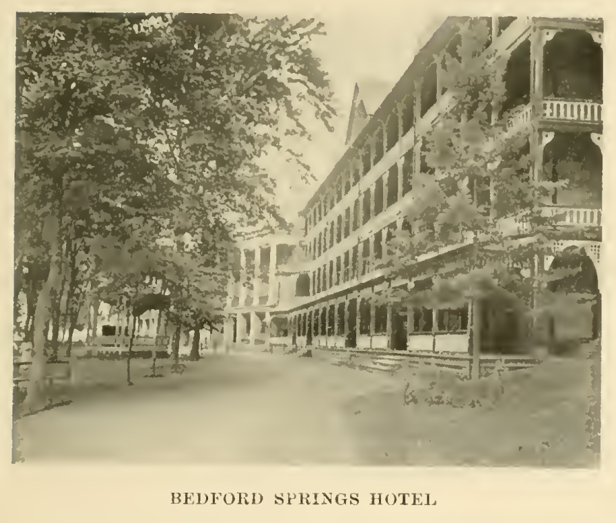 Photograph of Bedford Springs Hotel in Bedford Springs, Pennsylvania, that appeared in Baltimore & Ohio Railroad Company's Book of the Royal Blue, April 1909, Vol. 12 No. 07, Page 13